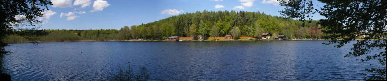 Lake Holzöster Upper Austria